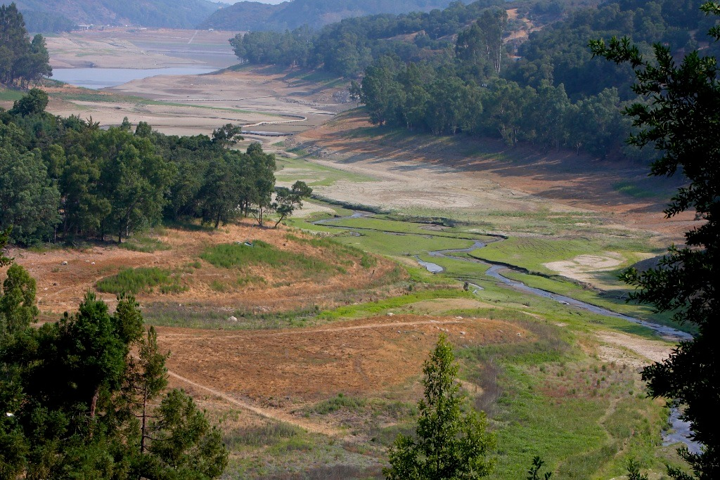 Upper Los Gatos Creek confluence with Lexington Reservoir dry season 2008